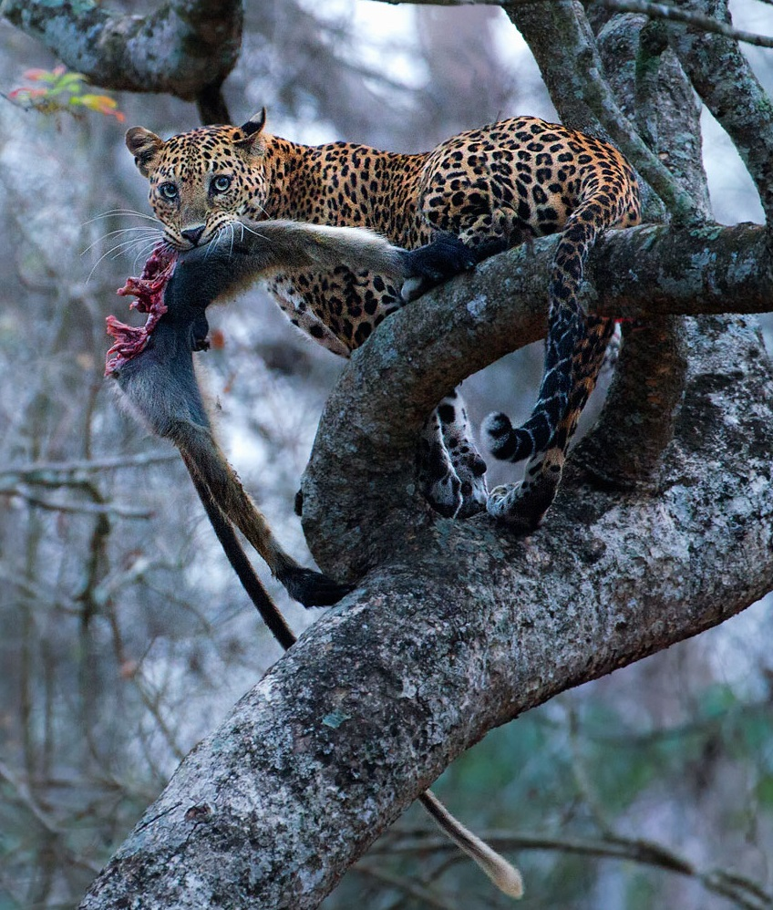 Leopard with an asian langour kill at kabini national park, India Body: NIKON D4 Lens: NIKON 200-400mm f/4G IF-ED II 0 Focal Length: 400mm